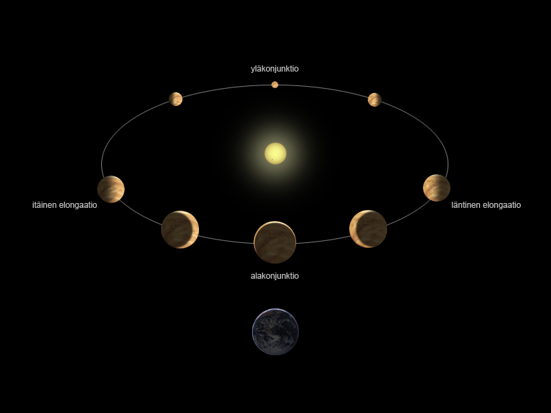 Phases of Venus in Finnish